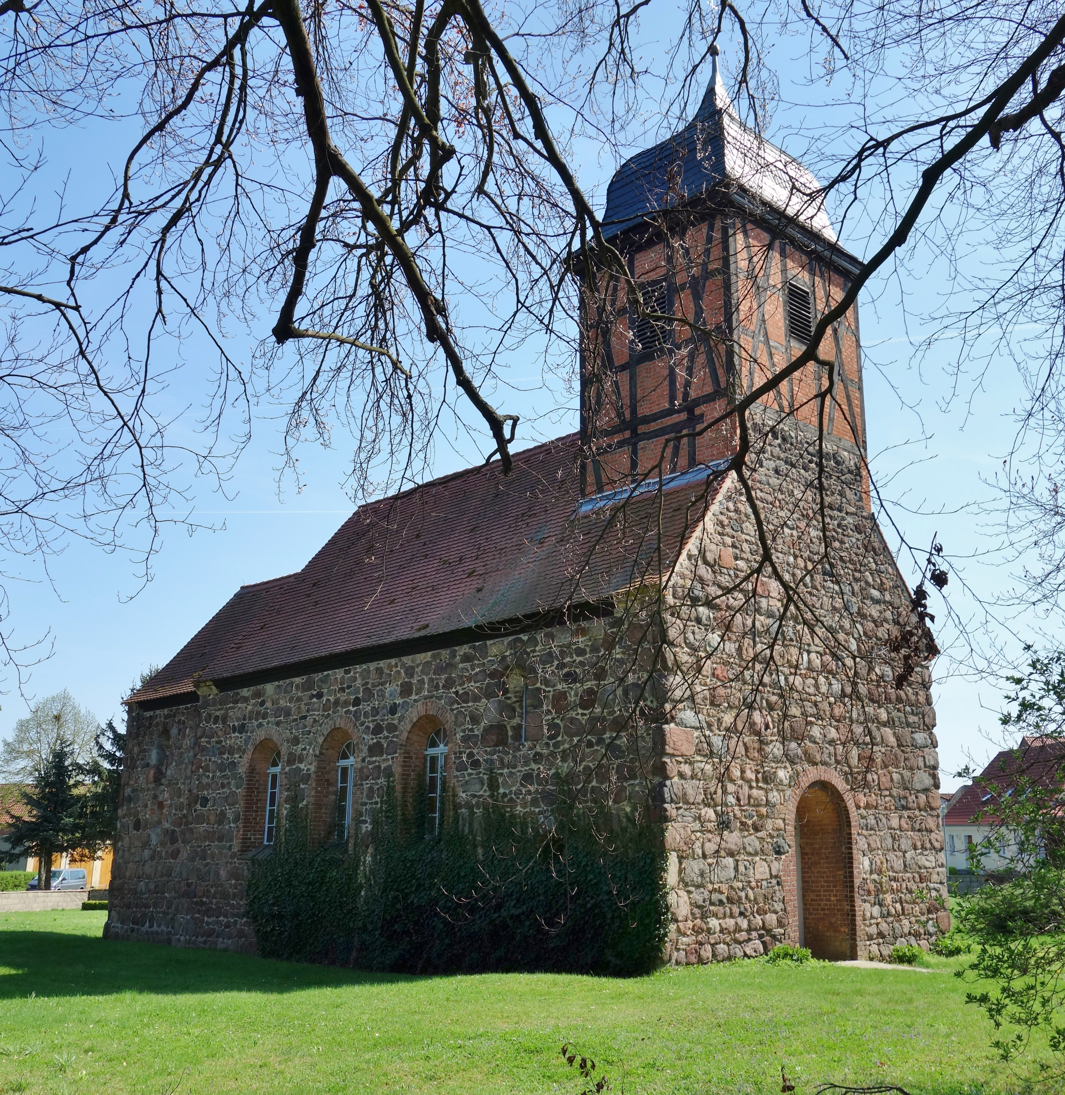 North-western view of the church in Grabow , Mühlenfließ municipality, Potsdam-Mittelmark district, Brandenburg state, Germany